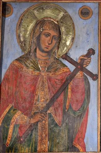 Saint Kyriaki Icon by Dicho Zograf in Saint Kyriaki Church in Debrene, 1844